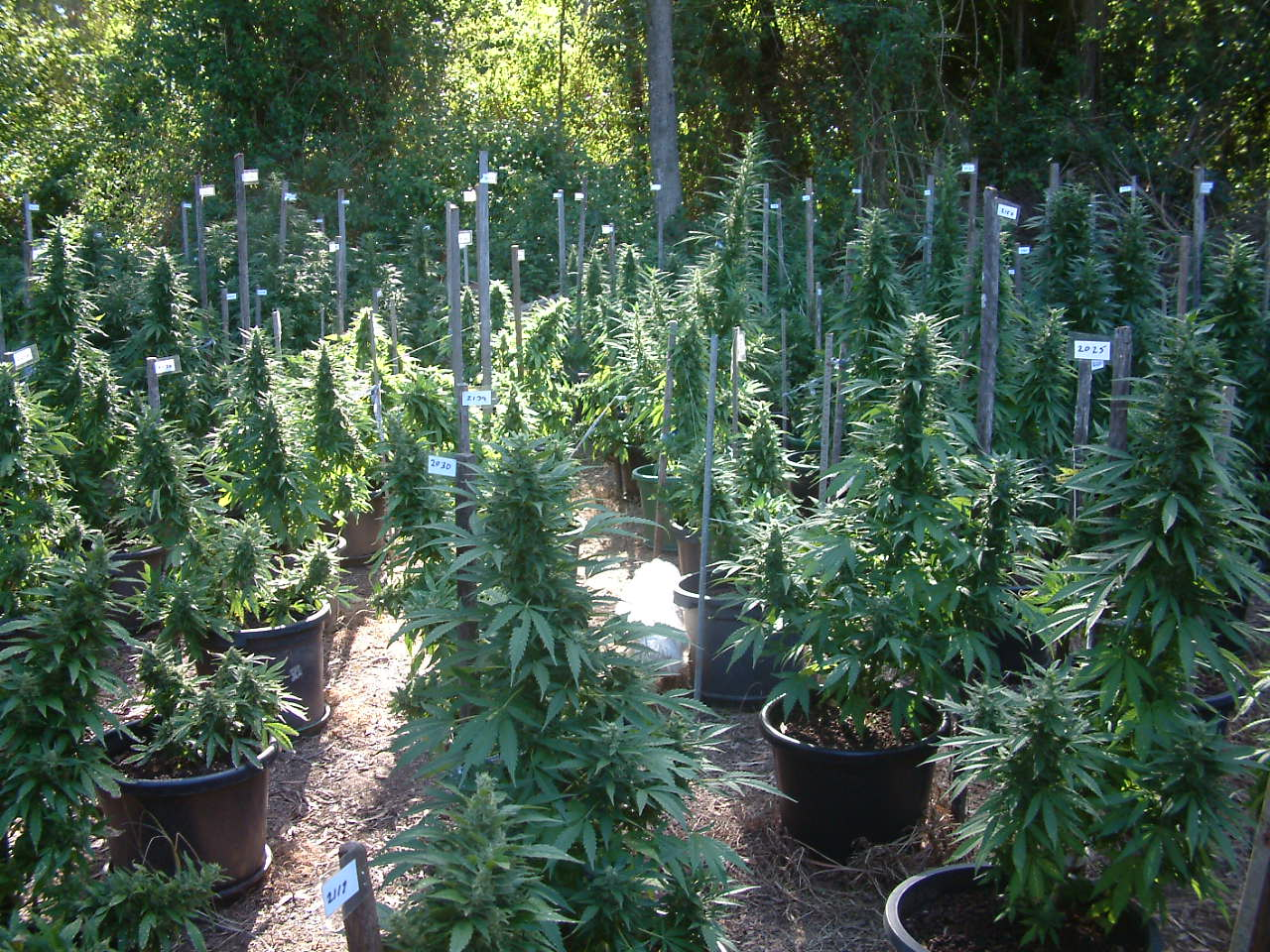 Mullaways Medical Cannabis' medical crop, used for Cannabinoid research and to produce Australia's first natural Cannabis based medicine, Mullaways Cannabinoid Tincture.